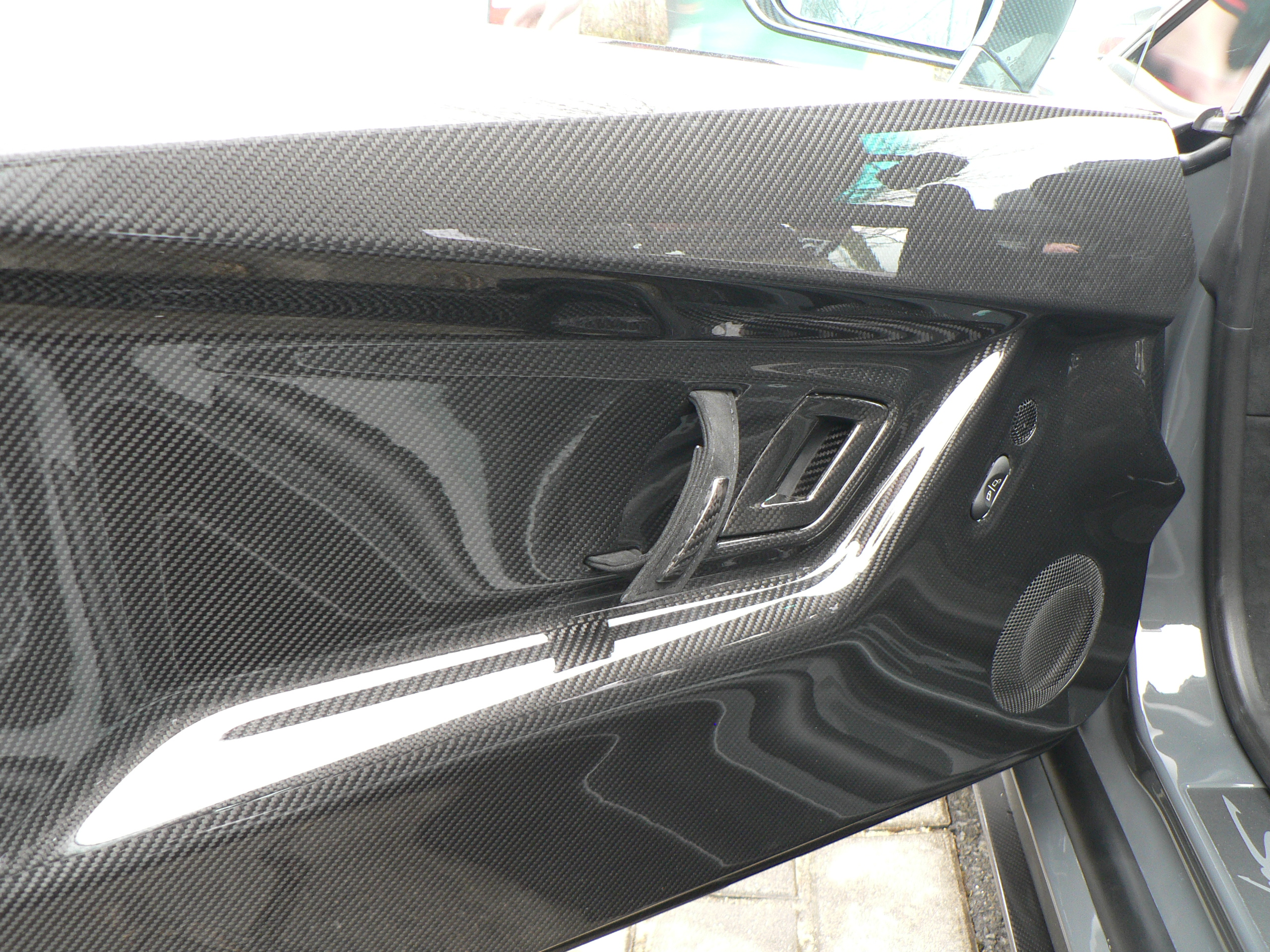 Detail of a carbon-coated door of the Lamborghini Gallardo Superleggera?